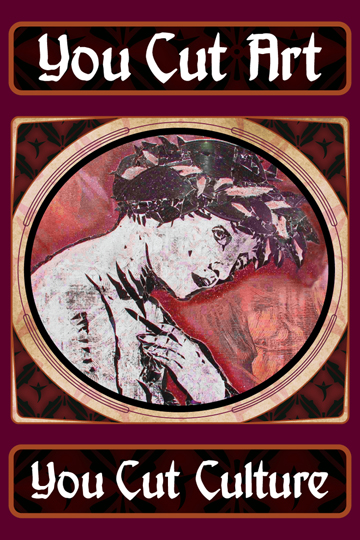 This poster was made for the protest against cutting fine art at Cal Poly Pomona, Ca in 2010, but in the strongest essence it was created for all arts alike...